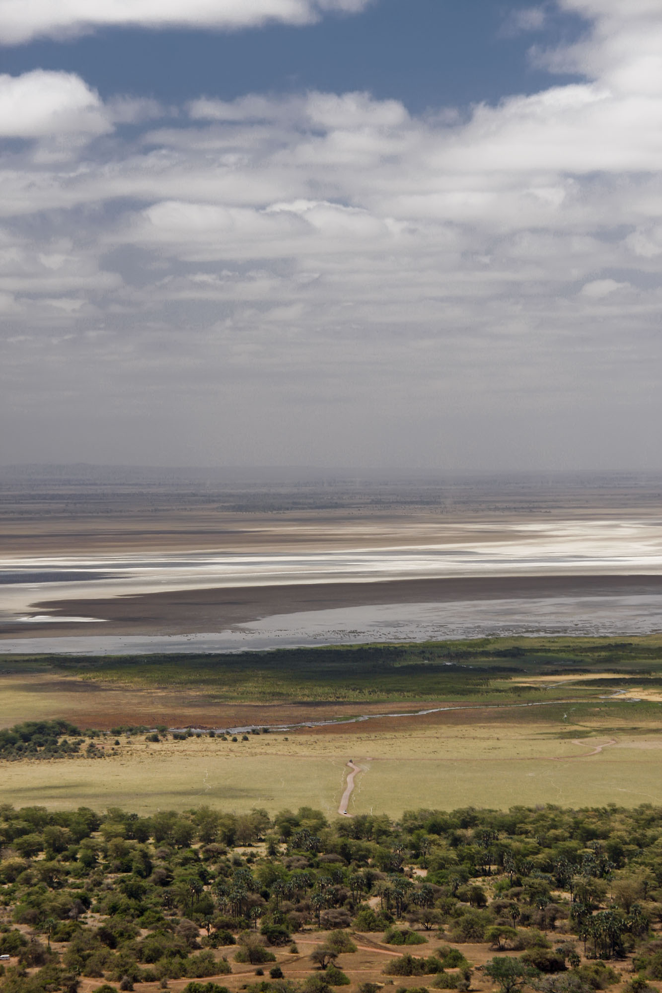 Lake Manyara, Tanzania